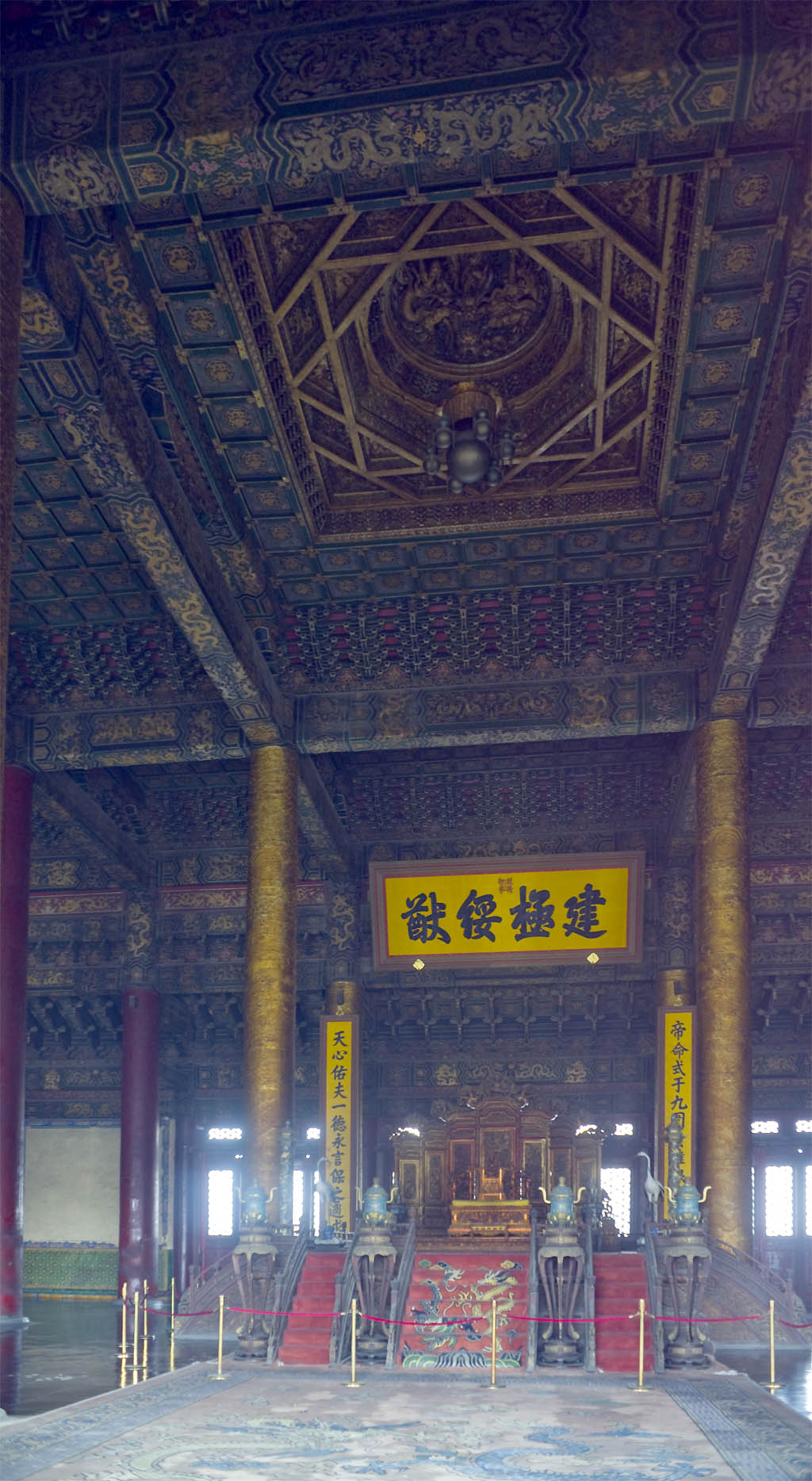 Imperial throne and ceiling in the Hall of Supreme Harmony of the Forbidden City, Beijing, China.